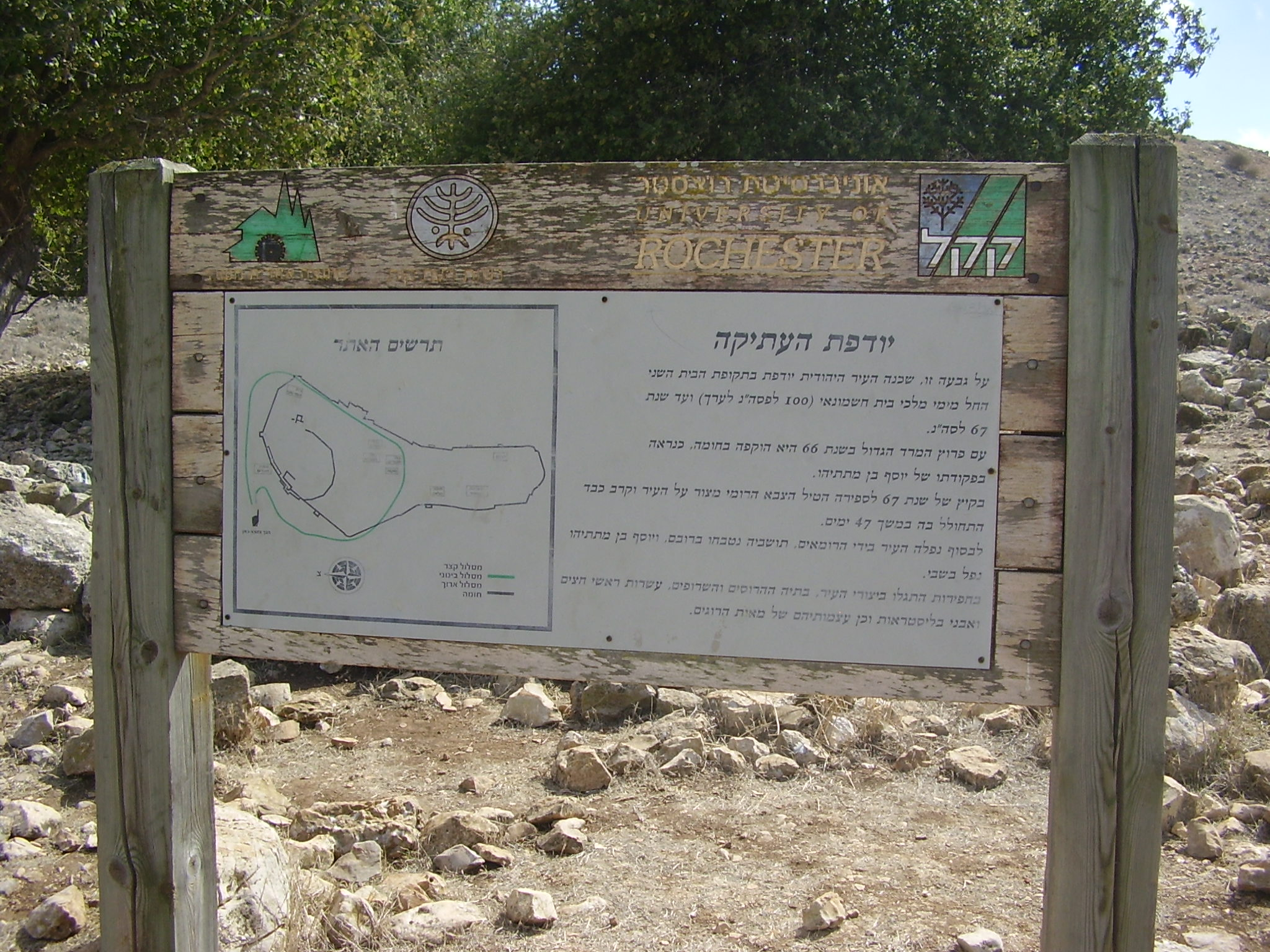 Ancient Yodfat